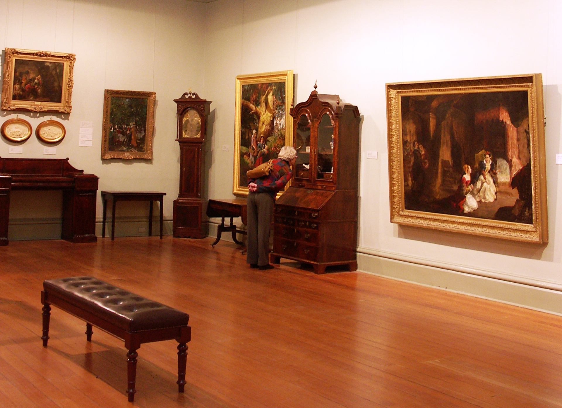 Interior of Ballarat Fine Art Gallery